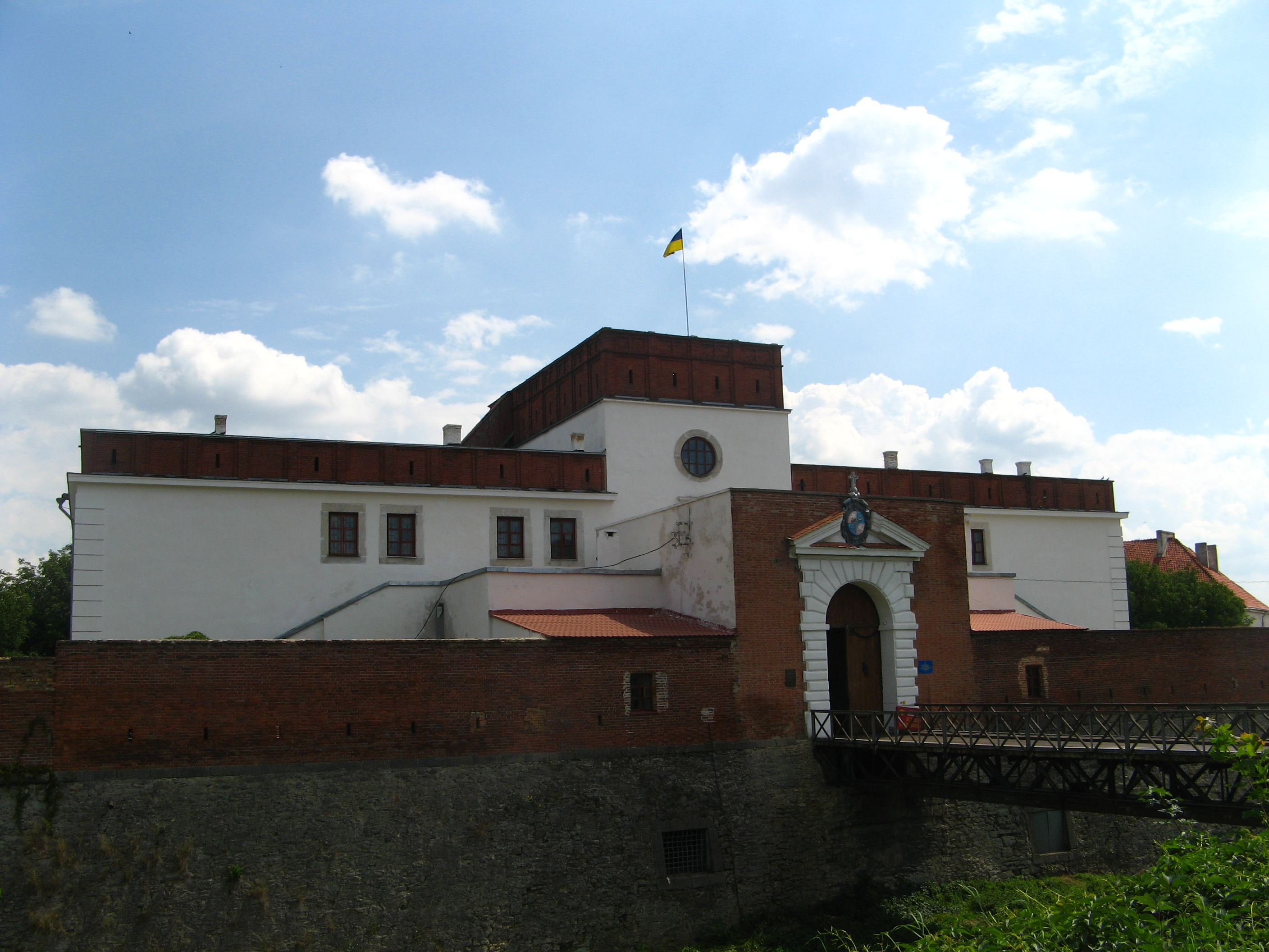 Dubno castle